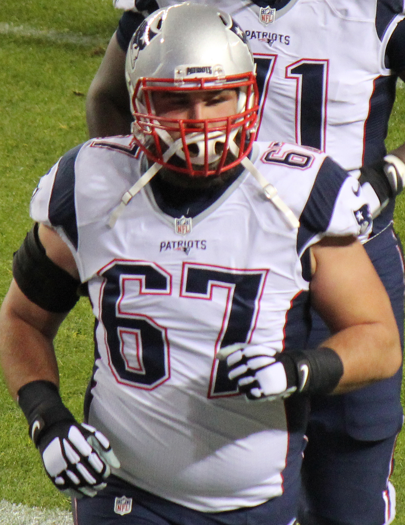 Josh Kline, a player on the National Football League.